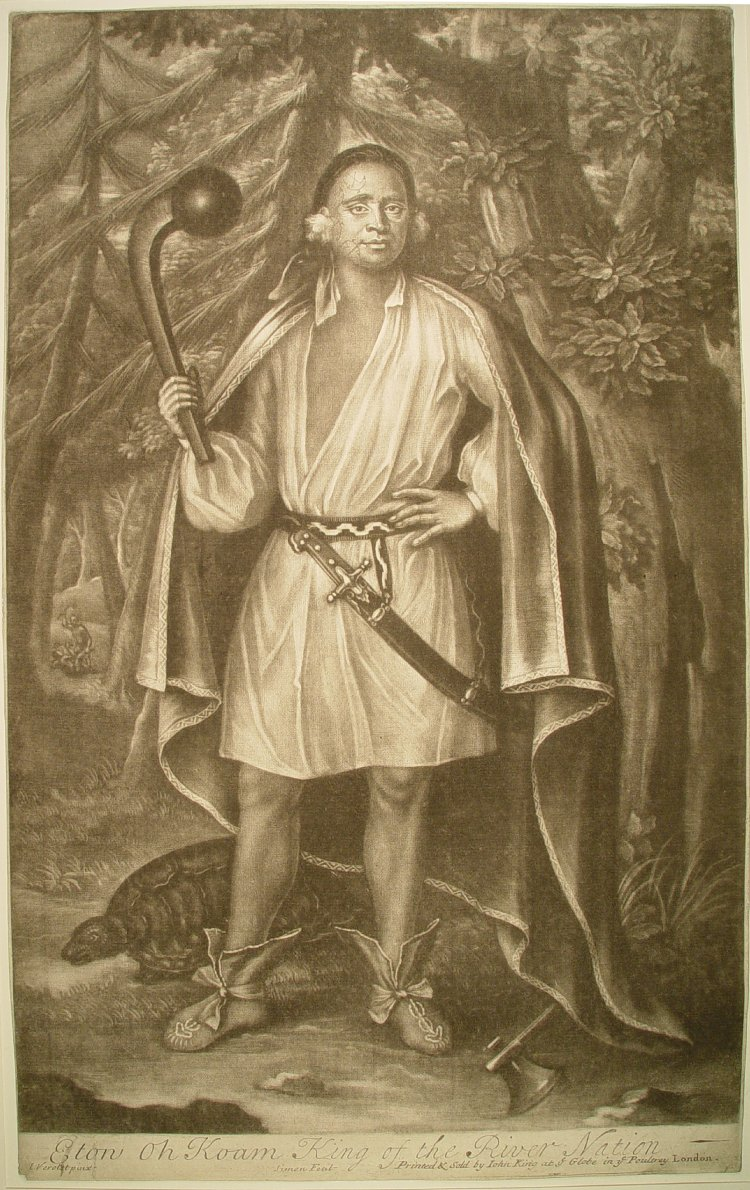 Portrait of Etow Oh Koam, one of the Four Mohawk Kings.